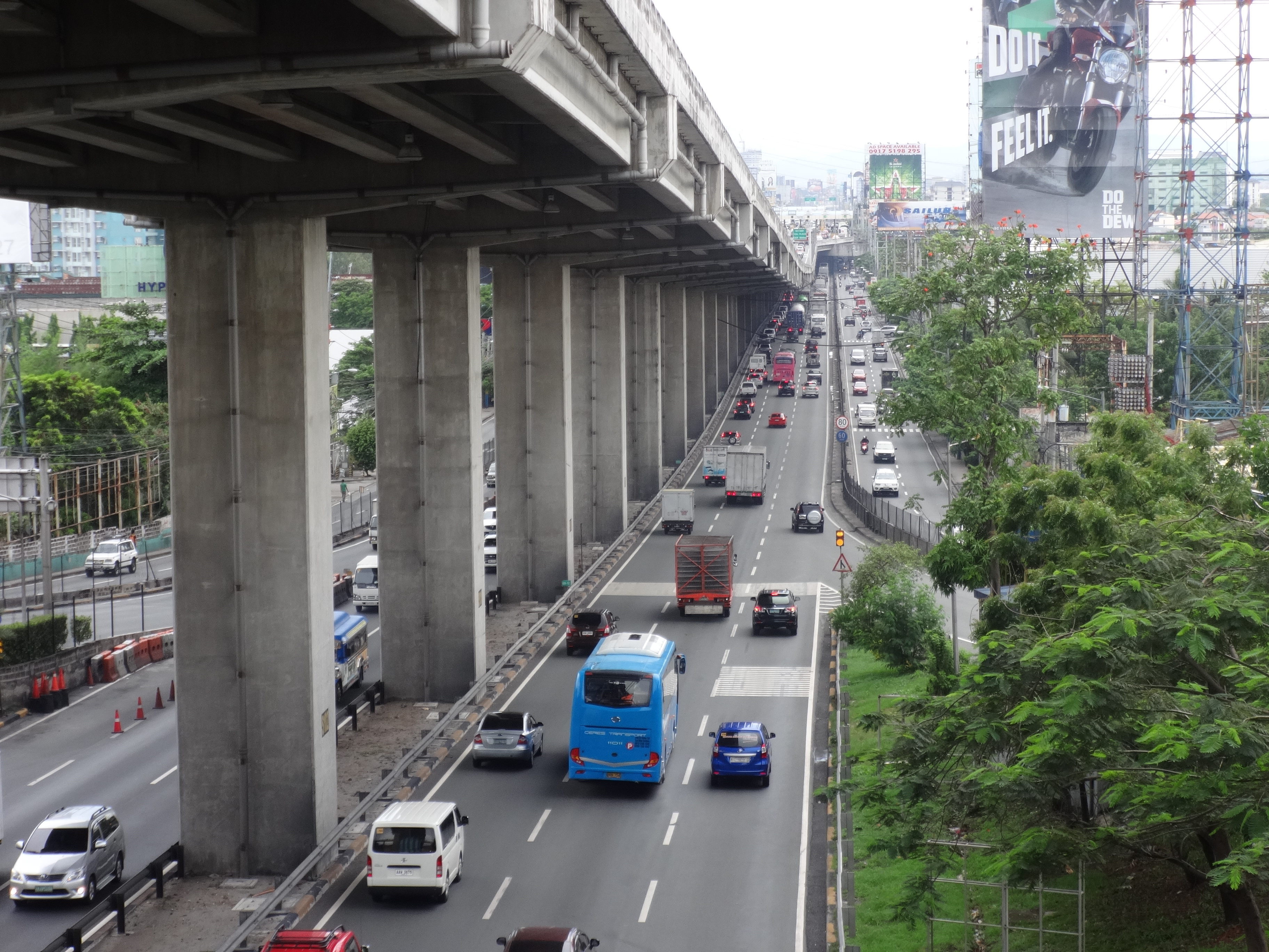 Metro Manila Skyway alogn South Superhighway, Muntinlupa